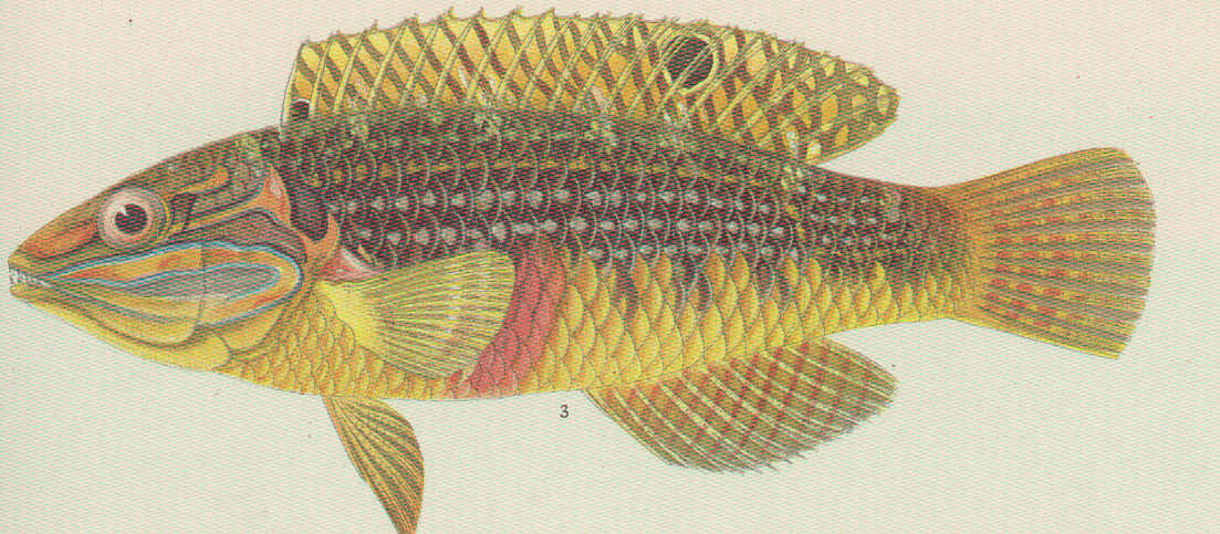 Halichoeres opercularis (Gunther) Subject: Wrasses Tag: Fish